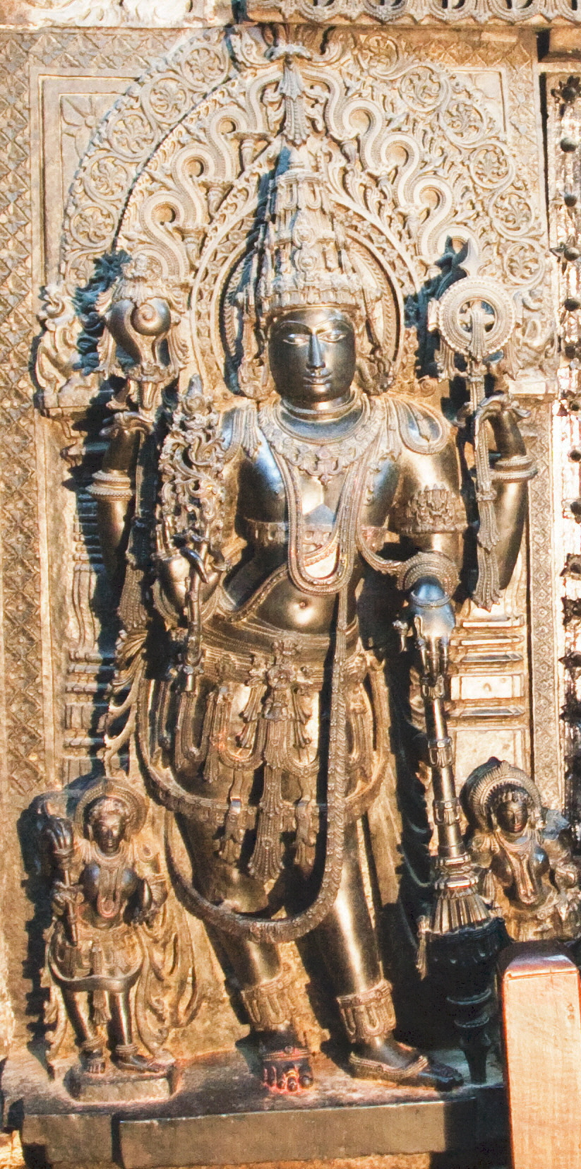 The sculpture of Jaya (guardian of Vishnu's abode - Vaikunta), here guarding the sanctum of the Vishnu temple - Chennakesava Temple